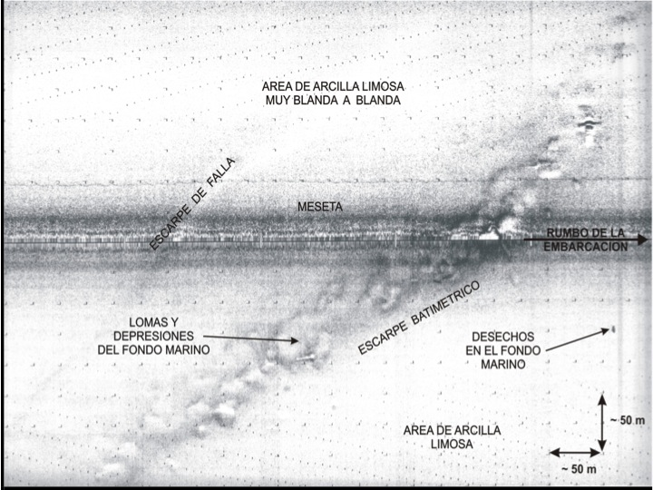 Fig. 3. Porciones de datos del sonar de barrido lateral 100KHz que muestra las condiciones del fondo marino en las cercanías del escarpe de falla.